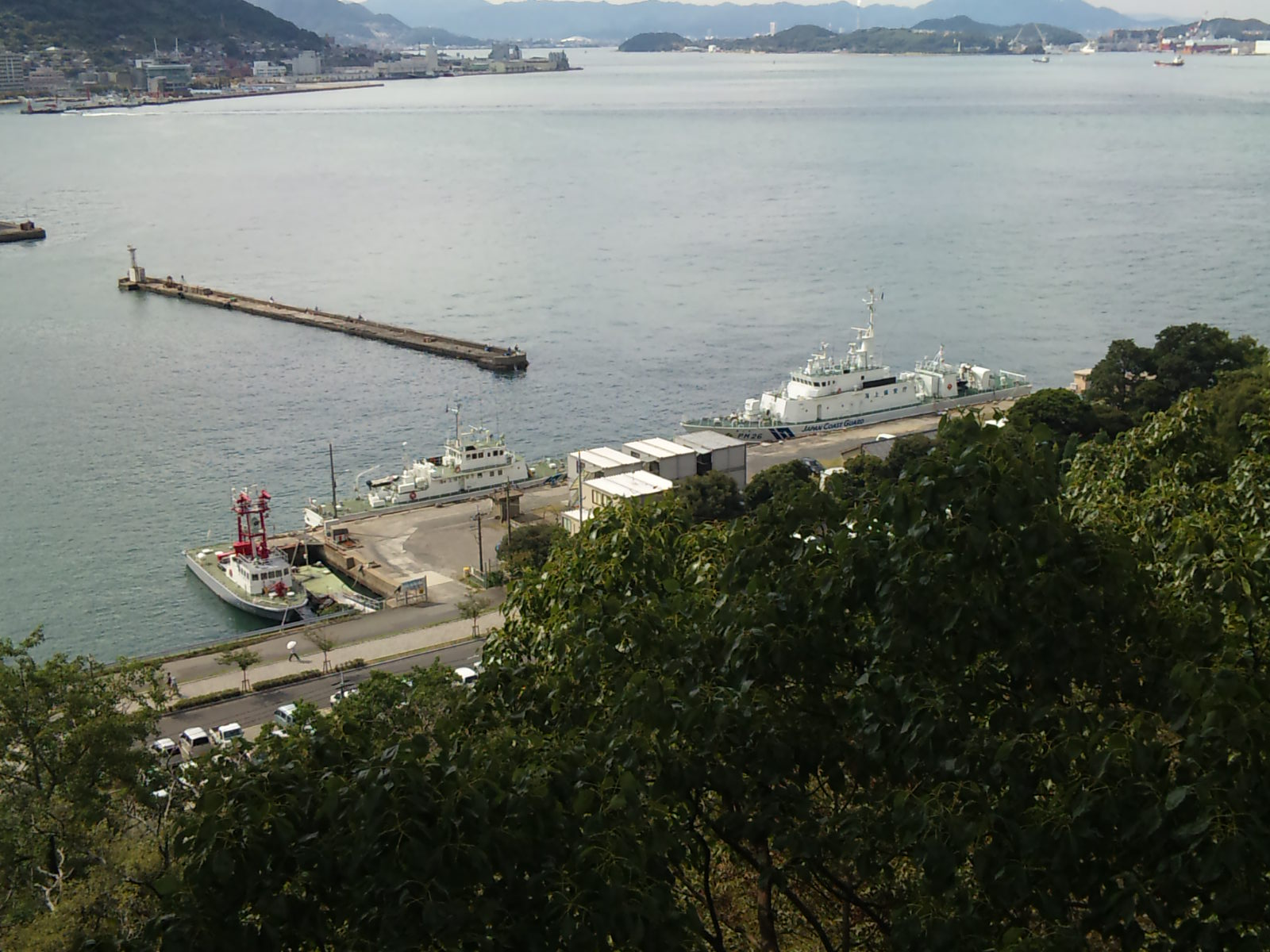 Moji Coast Guard Office. Kitakyusyu city, Japan.